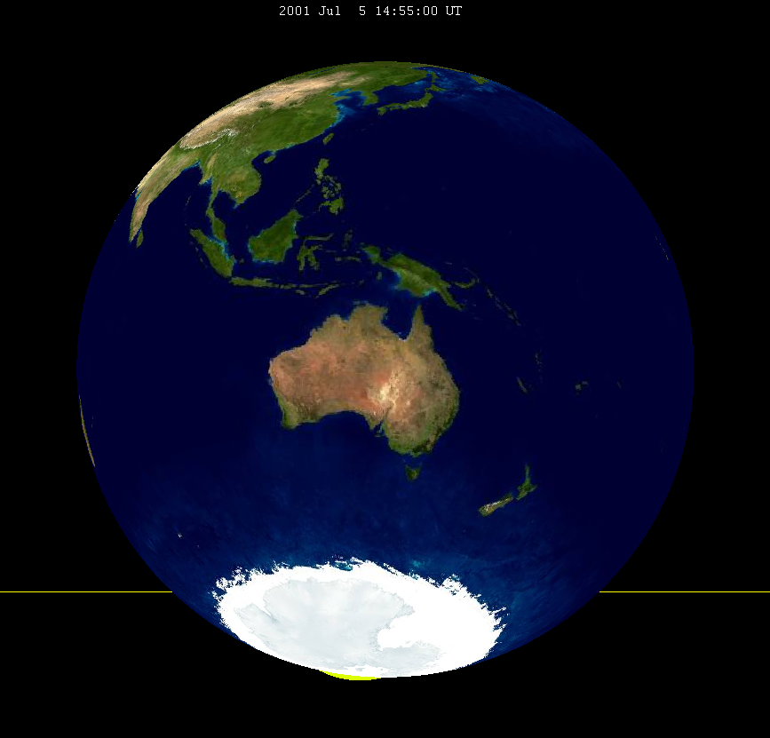 July_2001_lunar_eclipse view of earth The orientation of the earth as viewed from the center of the moon during greatest eclipse. thumb